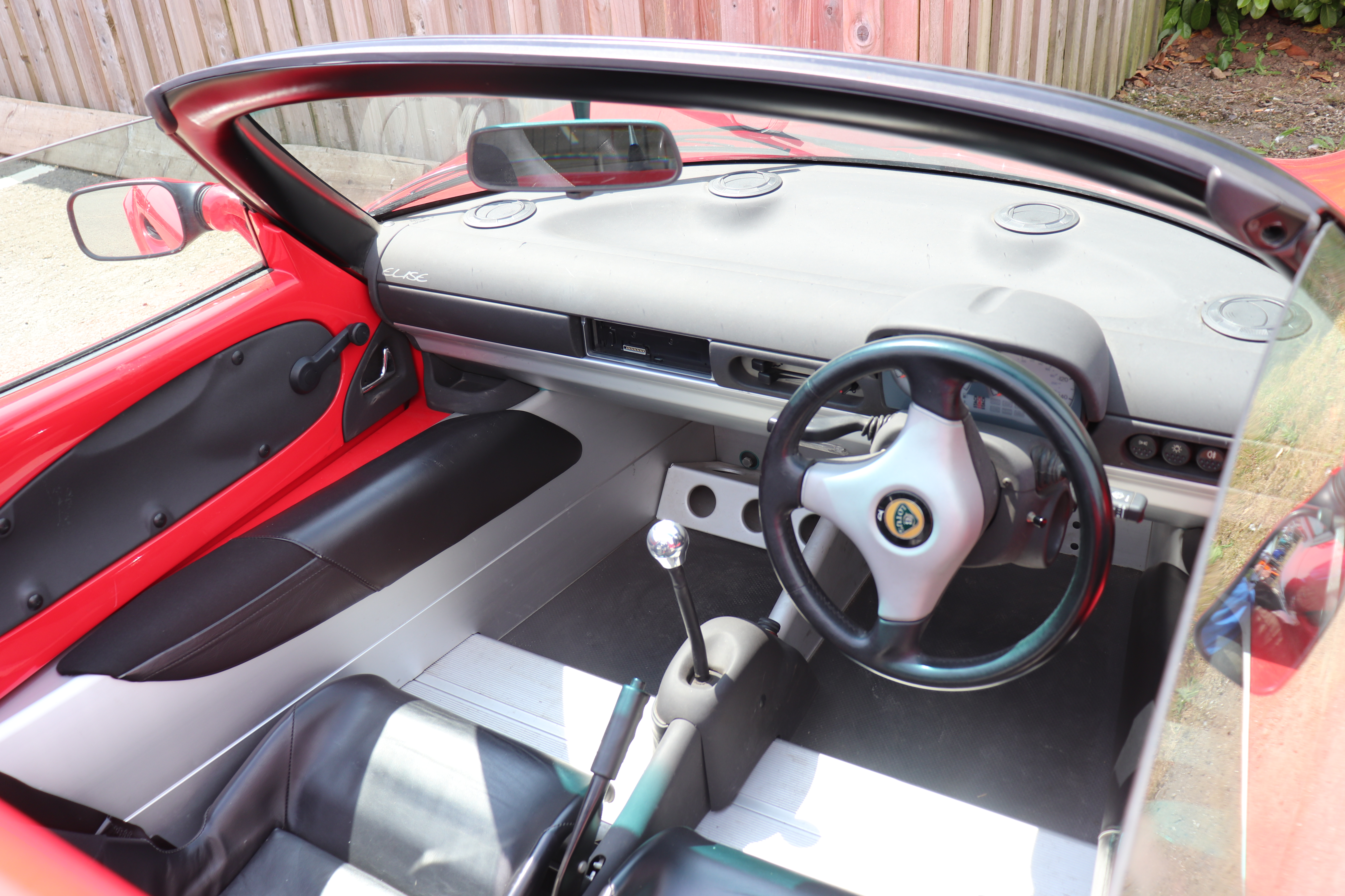 1997 Lotus Elise 1.8 Interior Taken at the British Motor Museum BMC & Leyland Show 2018, Gaydon